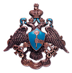 Emblem of Lubensky Hussars Regiment.